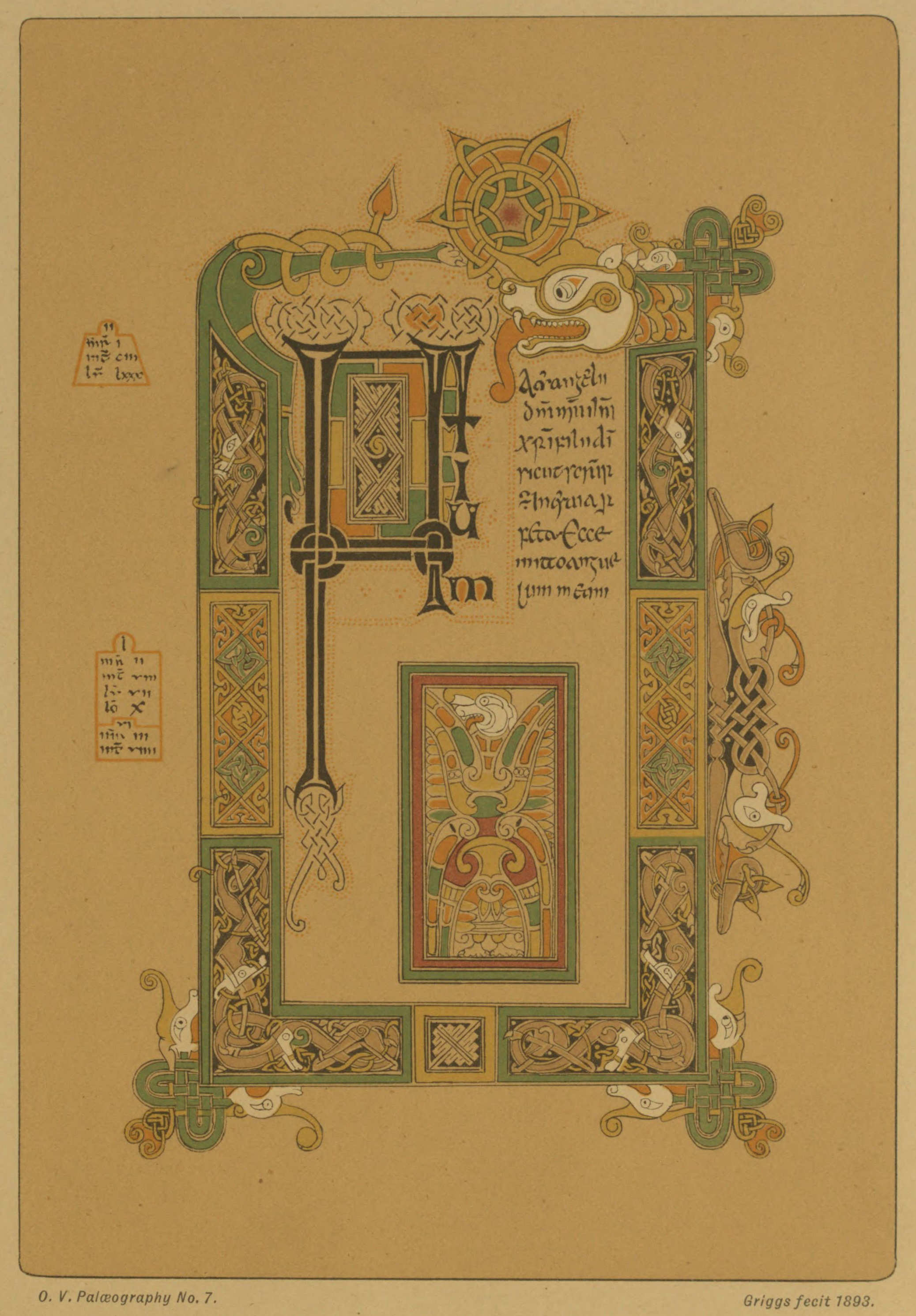 Plate from Palæography: Notes upon the History of Writing and the Medieval Art of Illumination. A PAGE FROM MACDURNAN'S GOSPELS. A MS. written in Ireland in the Ninth Century, now at Lambeth. The text is Mark 1:1. The illuminated initial represents the IN of the first word INITIUM.